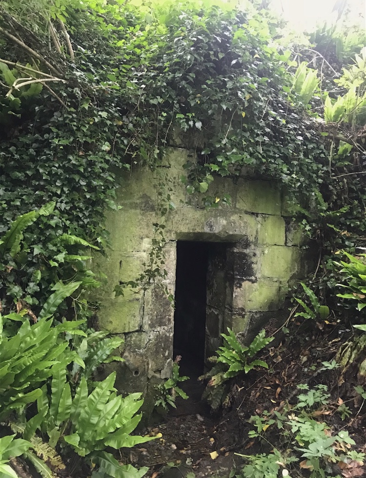 Ladywell, or Monk’s Well, Edington, Wiltshire